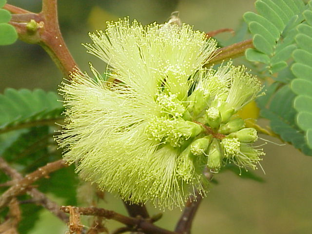 Species: Paraserianthes lophantha (file name misleading because of wrong ID by the original author Family: Mimosoideae Image No. 2